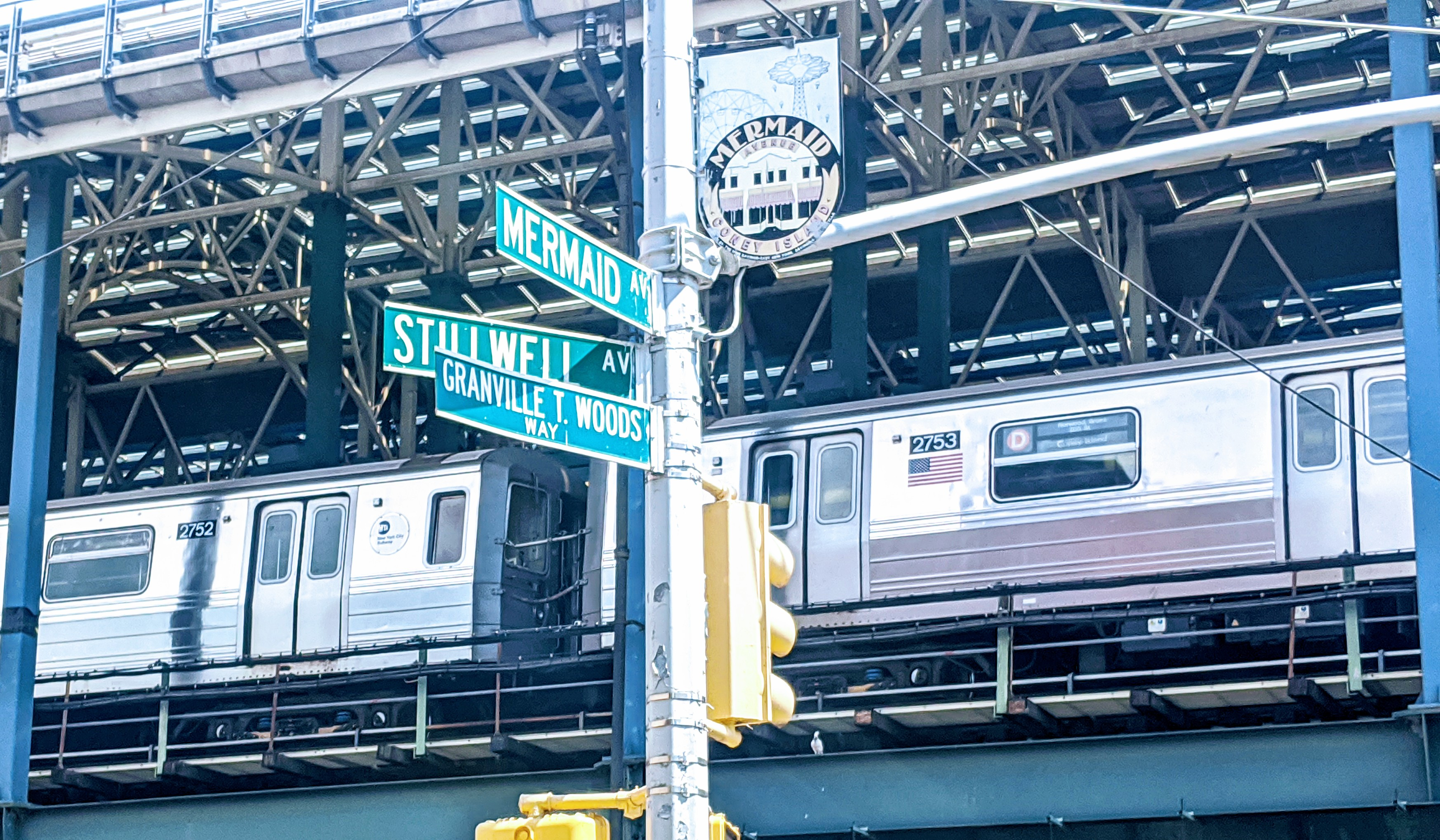 In 2008 the corner of Mermaid ave and Stillwell Ave in Coney Island, Brooklyn, USA was renamed Granville Tailor Way to honor the inventor and electrician who revolutionized the electric railway and trolleys with his improvements and patents.